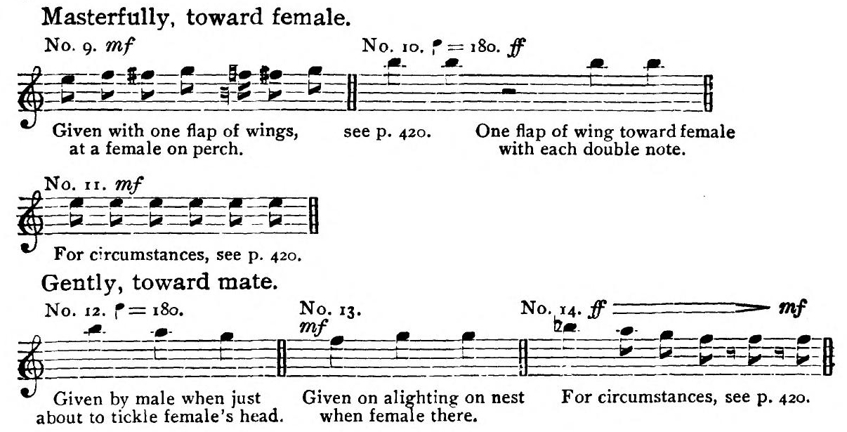 Musical notes documenting some vocalisations of the extinct passenger pigeon.